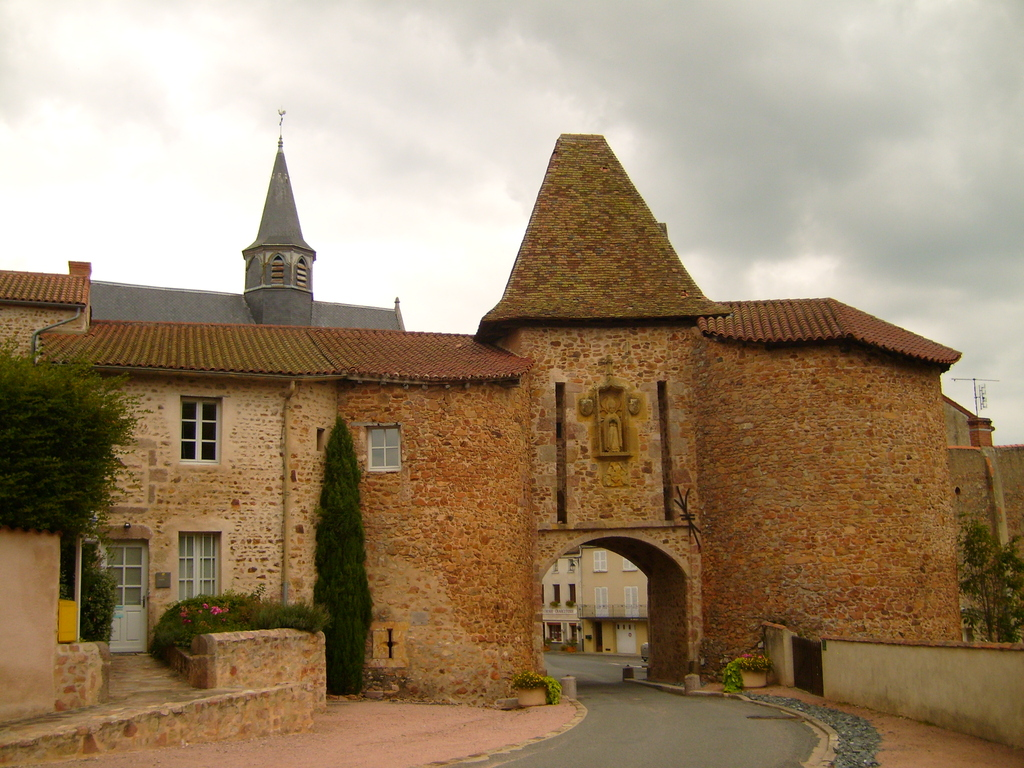 Fortified city gate of Montaiguët-en-Forez, Bourbonnais, Allier, France.